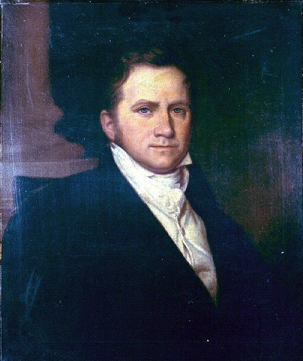 Benjamin Williams Crowninshield, Secretary of the Navy, 16 January 1815 - 30 September 1818